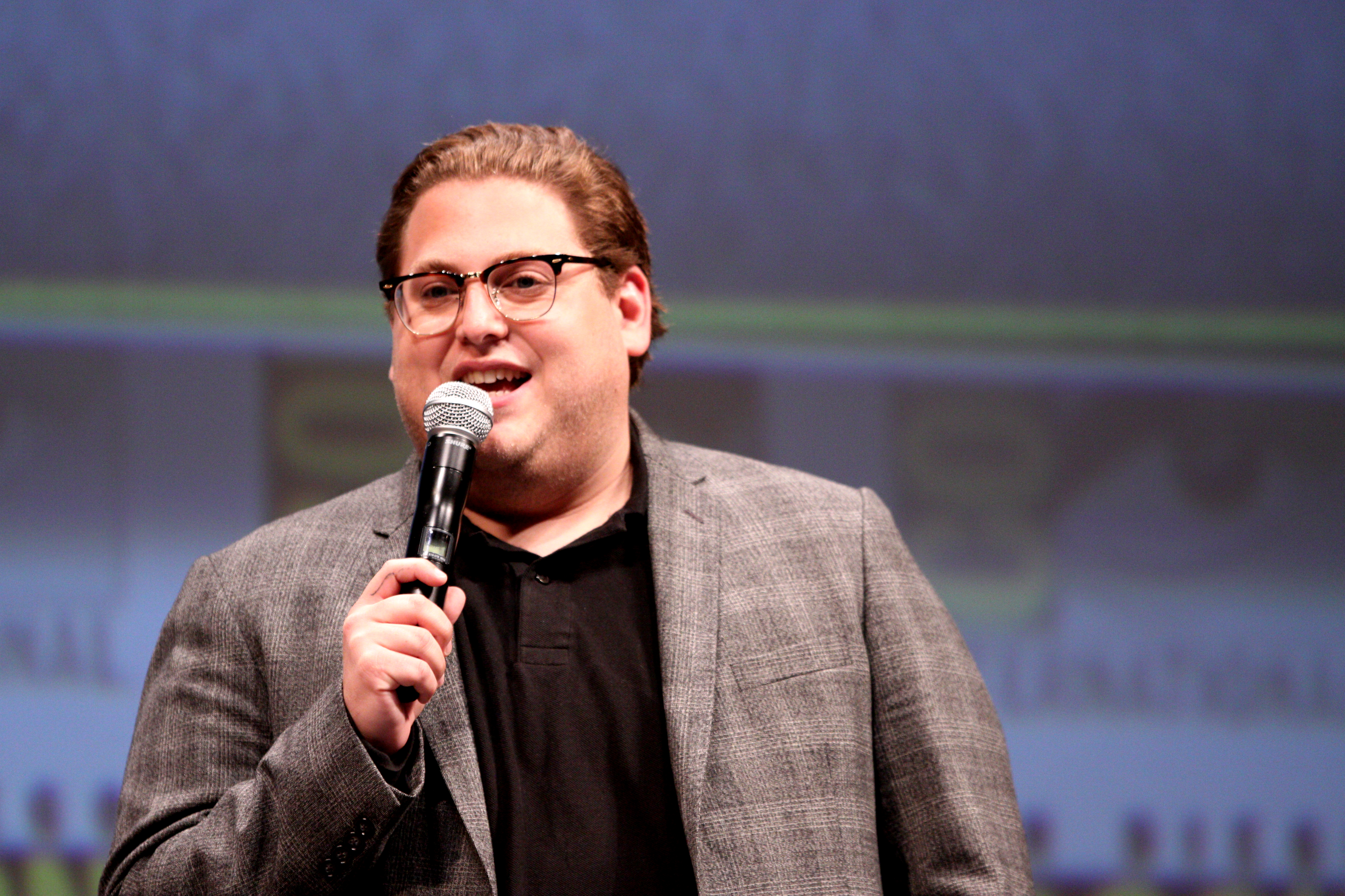 Actor Jonah Hill at the MegaMind panel at the 2010 San Diego Comic Con in San Diego, California.